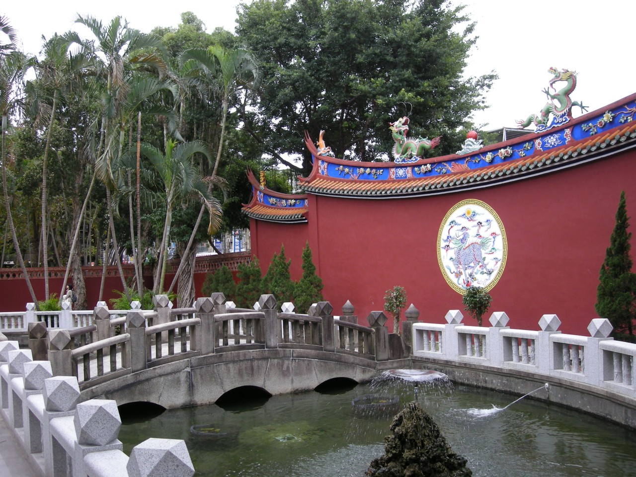 Pan-Pond and Wanren Gongqiang at Confucius-Temple, Taipei